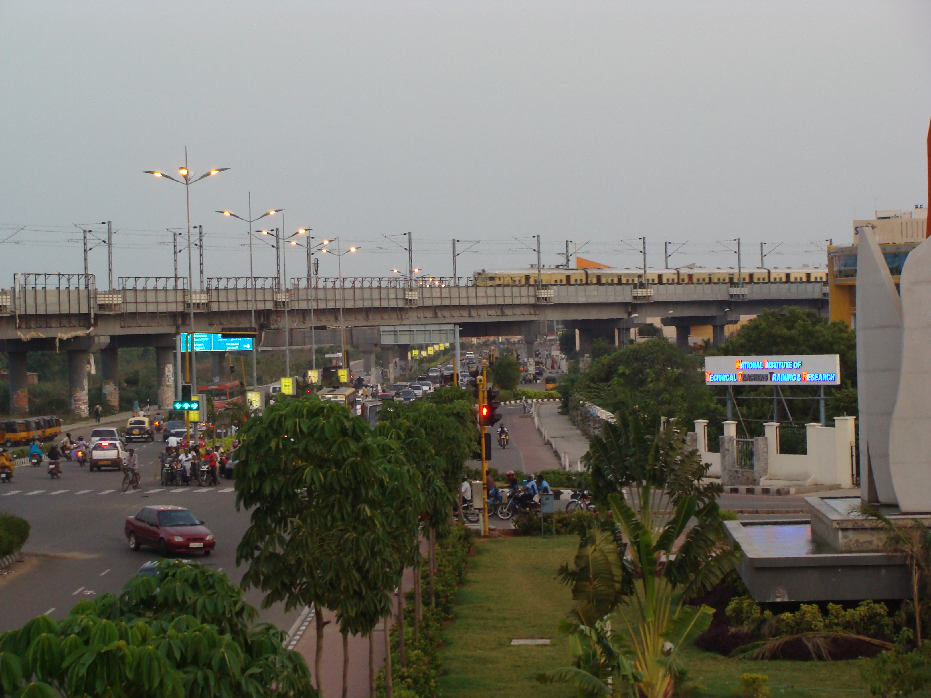 MRTS crossing in IT corridor